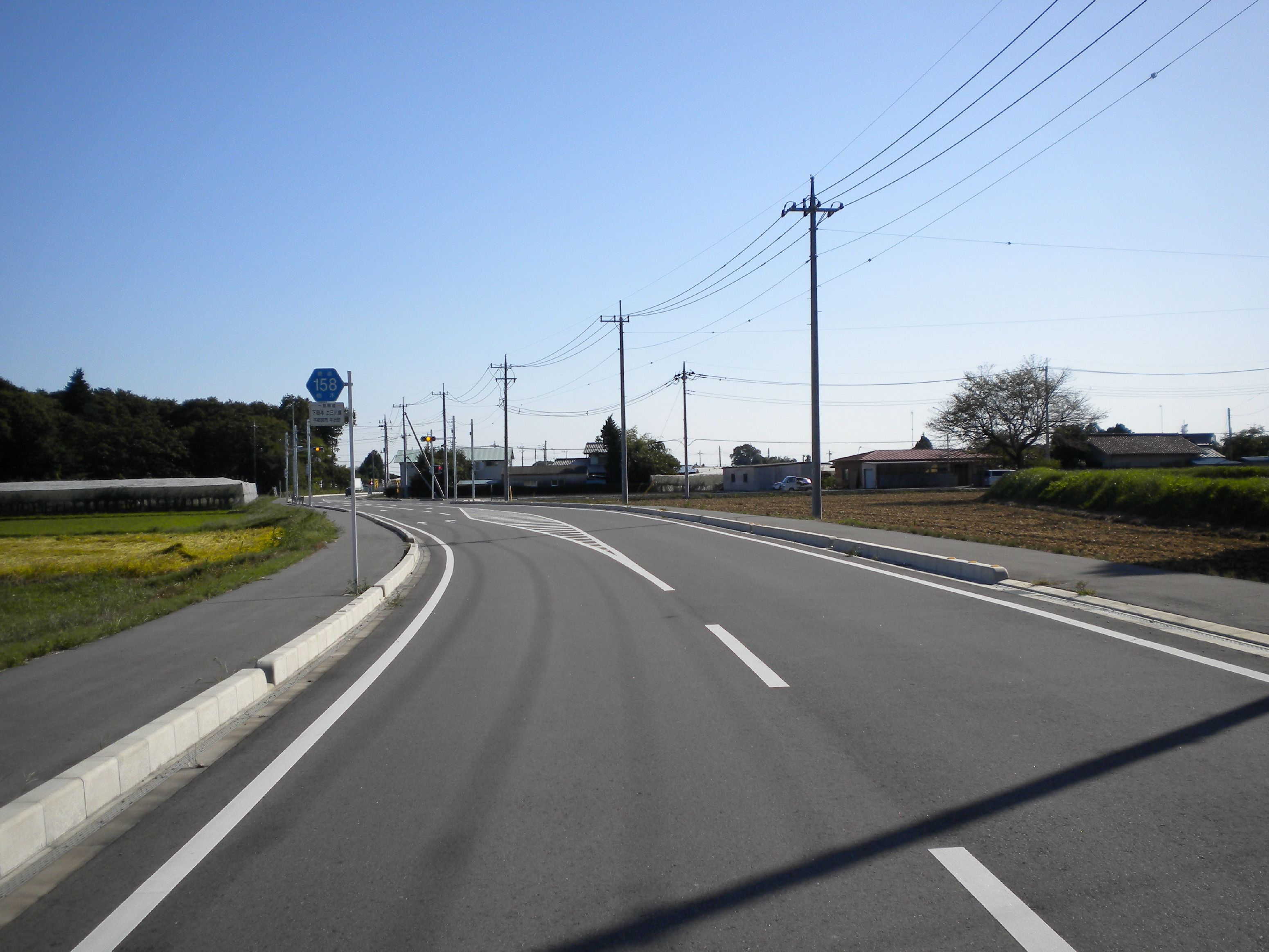 Tochigi prefectural road No.158 on Utsunomiya city